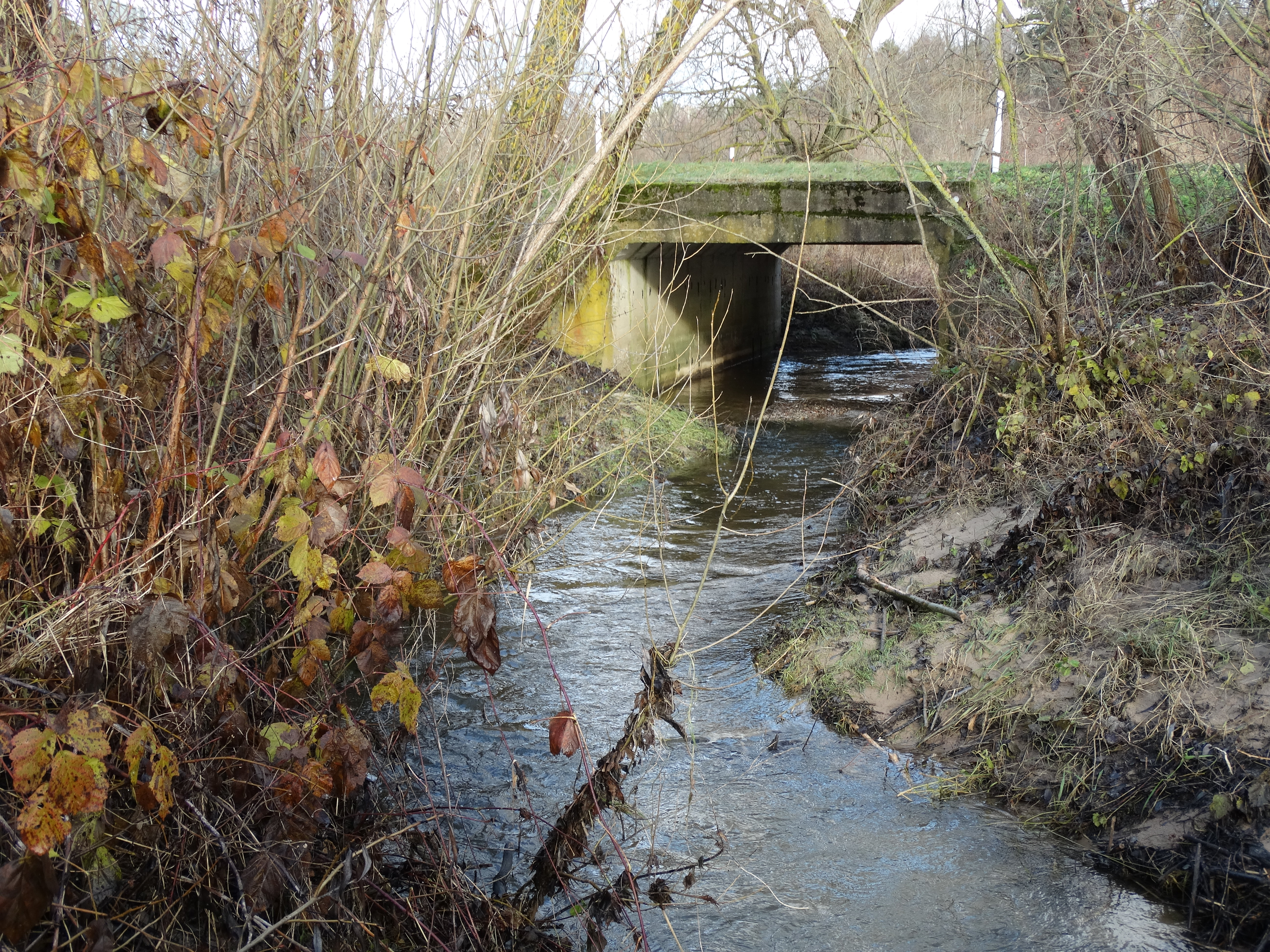 Gystus stream by Veliuona, Jurbarkas district, Lithuania